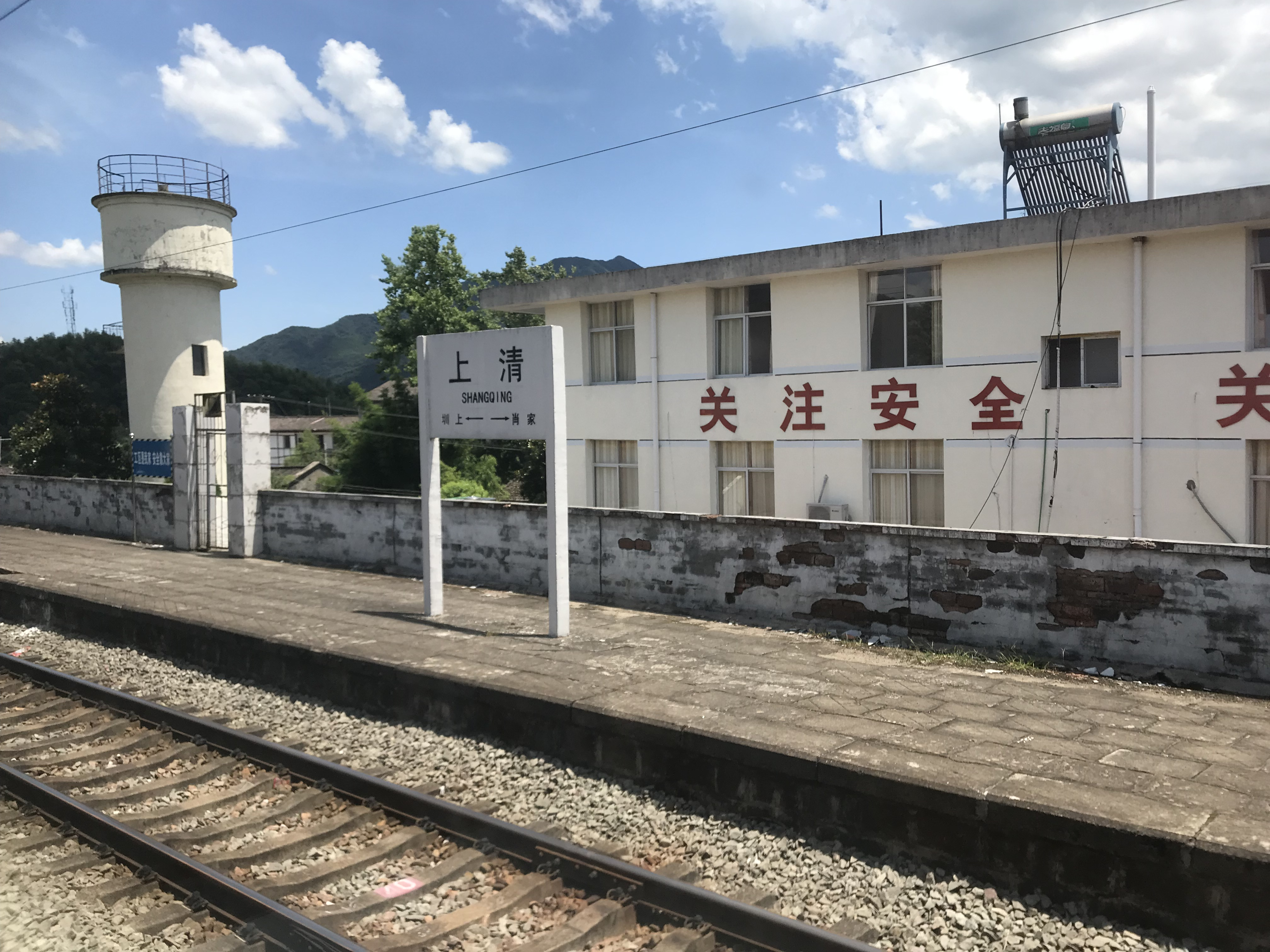 201806 Nameboard of Shangqing Station South